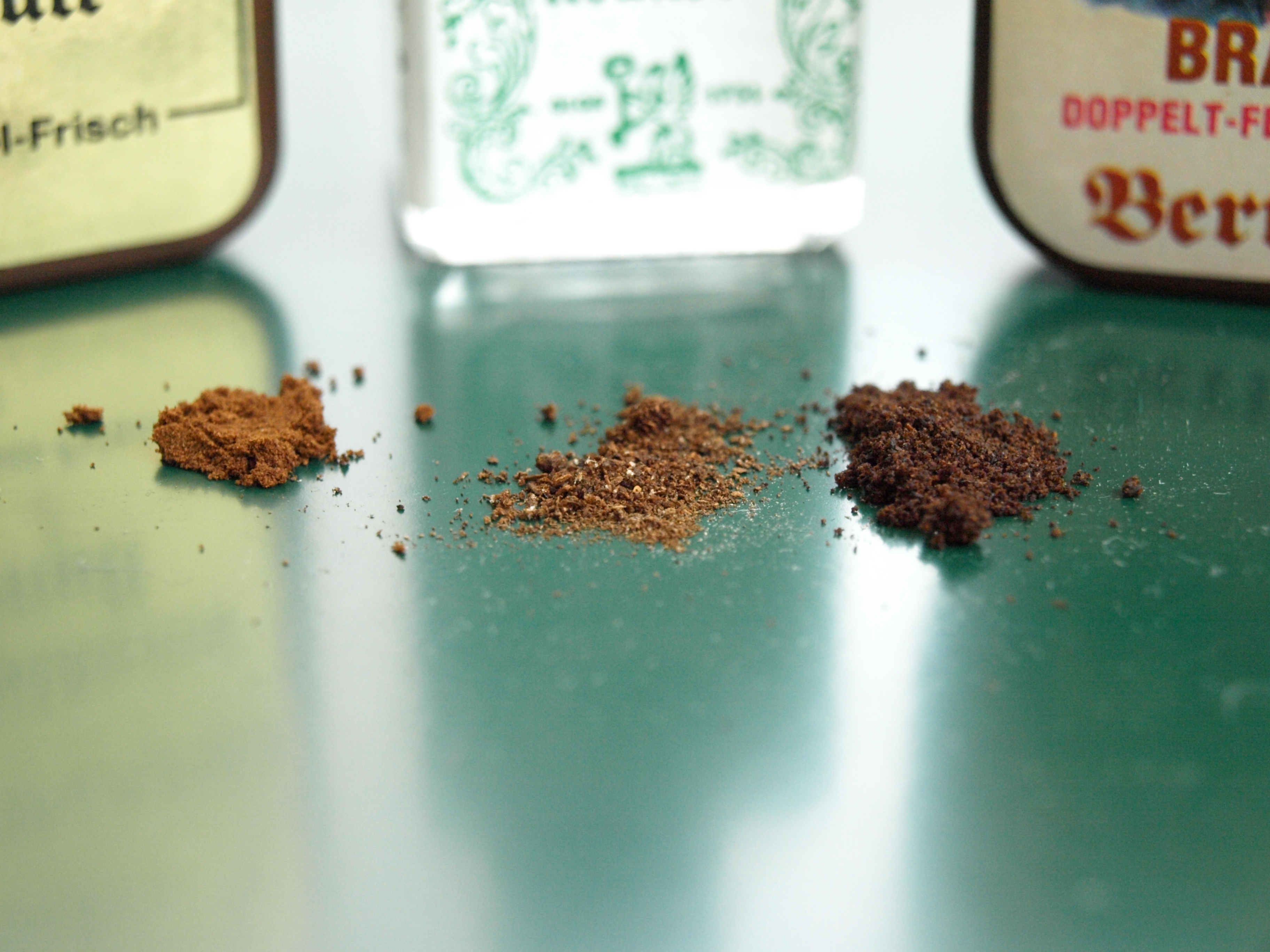 Different snuff with different colours and consistencies: From light brown to dark, from crumbly to clumpy. From left: "Jubiläums Snuff", "Feinster Kownoer", "Schmalzerfranzl Brasil" (all produced by Gebrüder Bernard)